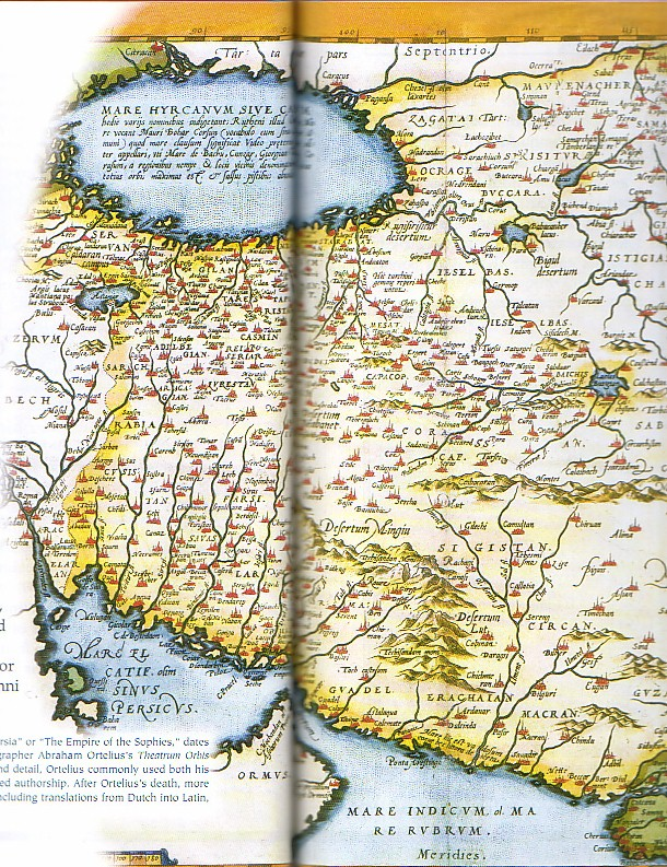 The Kingdom of Persian, this map was created by Dutch cartographer Abraham Ortelius, the first modern Atlas, and was printed from 1570 to 1624